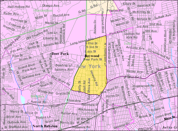 U.S. Census 2000 reference map for Baywood